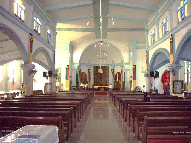 The inner side of the church.